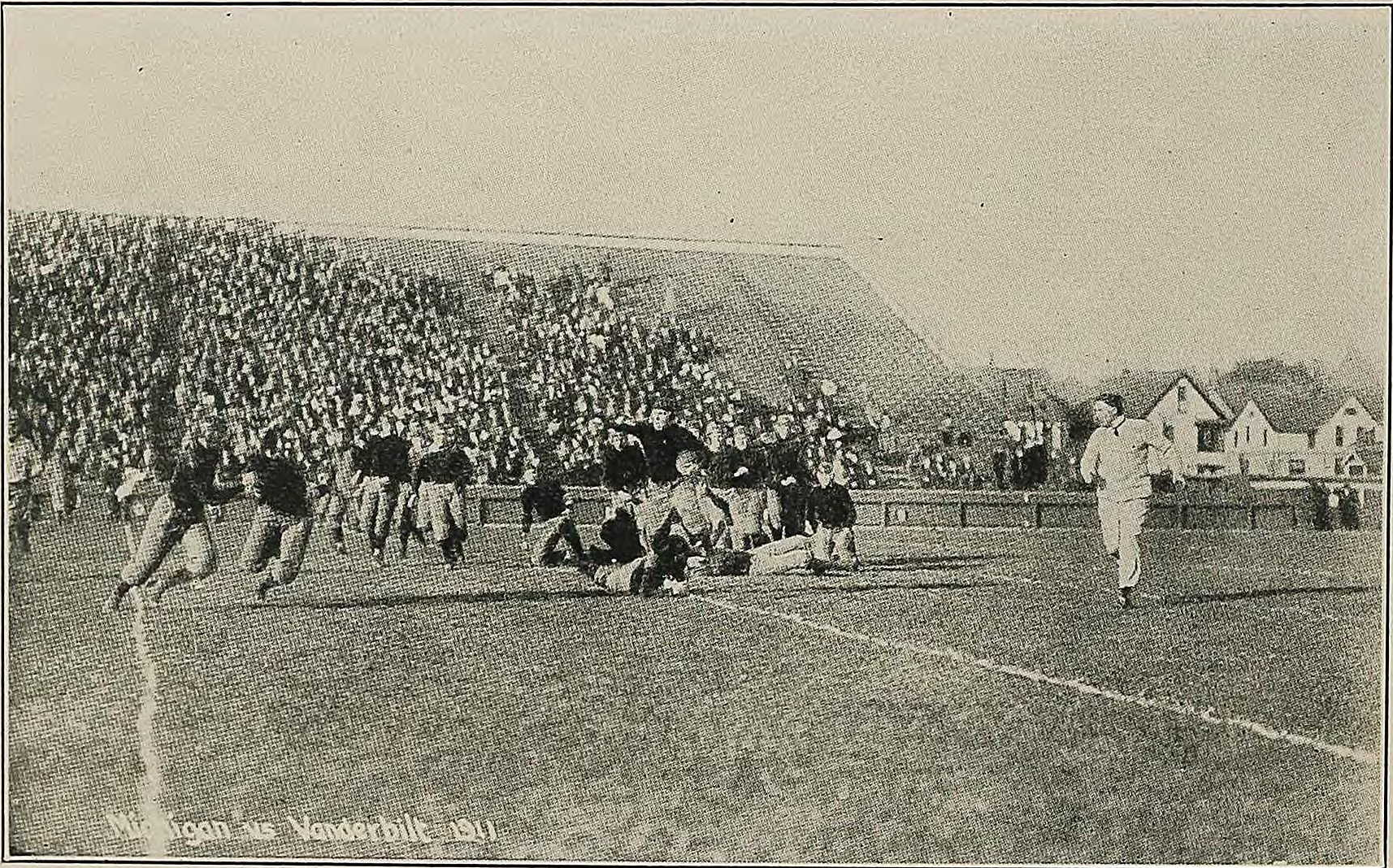 Lew Hardage of Vanderbilt, with the ball, circles left end against Michigan